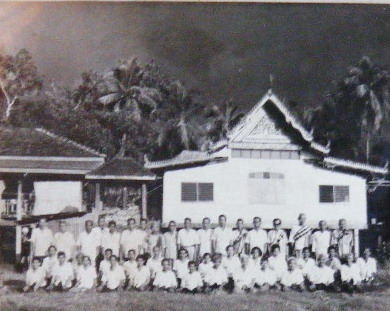 Pa Kluai villagers in Year 1956 .Wat Pa Kluai, Ban Pa Kluai, Khung Taphao subdistrict, Mueang Uttaradit, Uttaradit Province, Thailand.